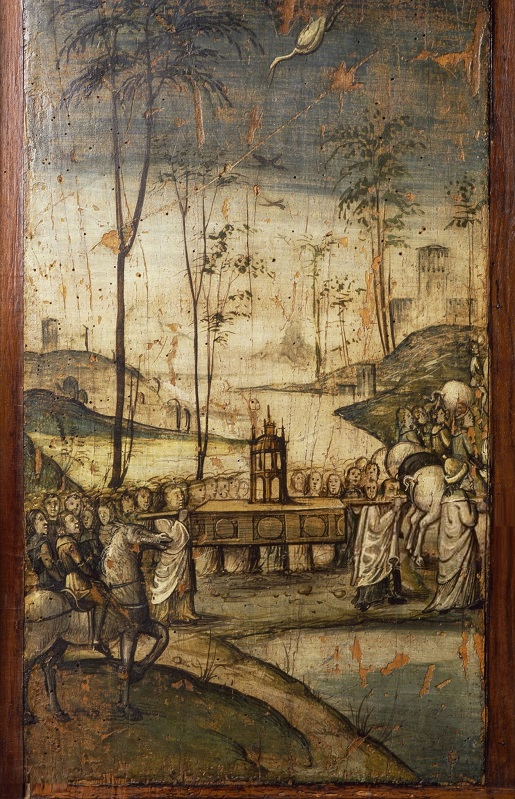 Crossing the Jordan River with the Ark, painted board, detail from the cabinets of the Old Sacristy, Church of St Mary the Gracious (UNESCO World Heritage List,1980), Milan. Italy, 15th century.